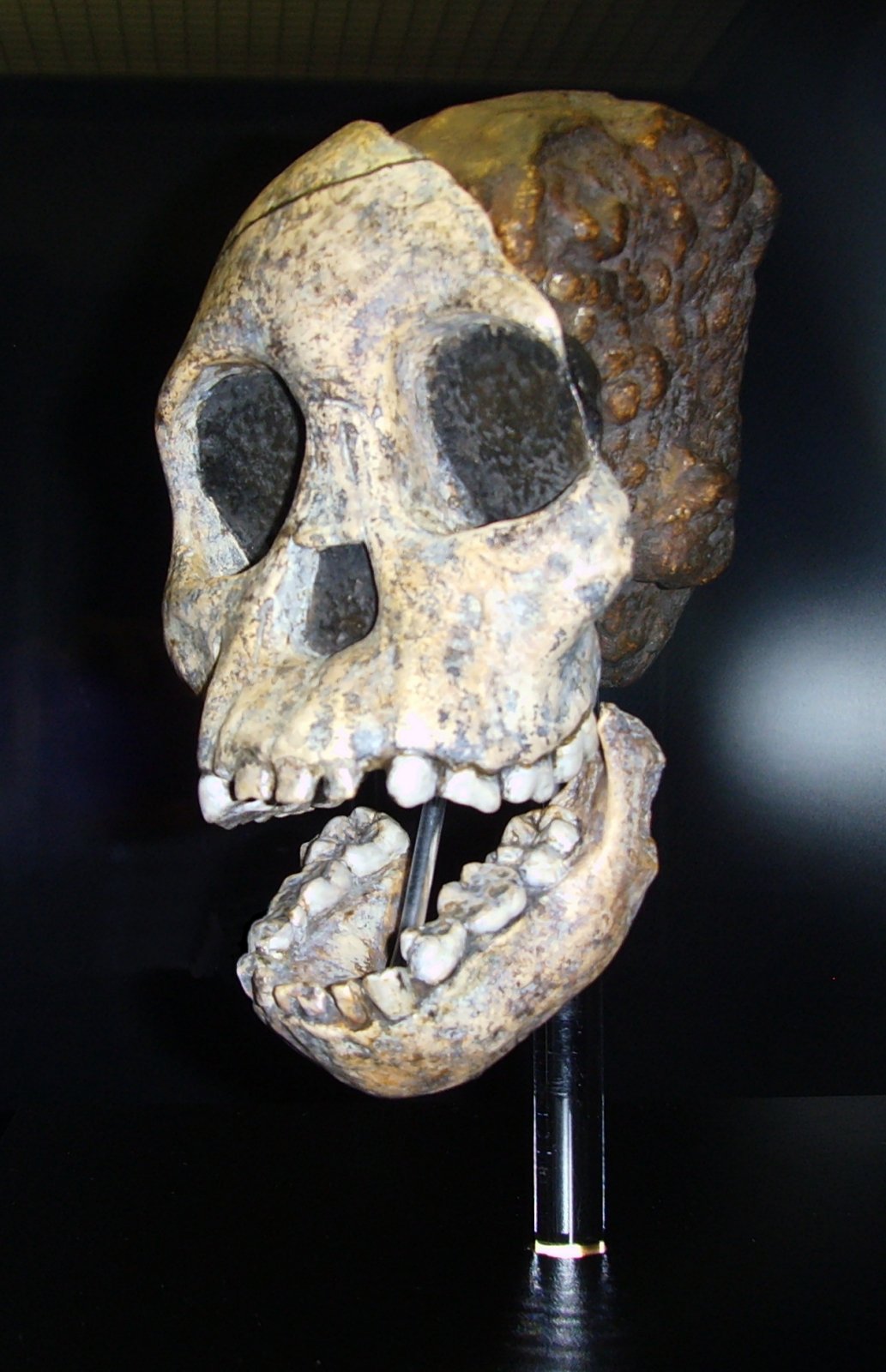 Australopithecus africanus from Taung, replica, Senckenberg-Museum, Frankfurt am Main (Germany)